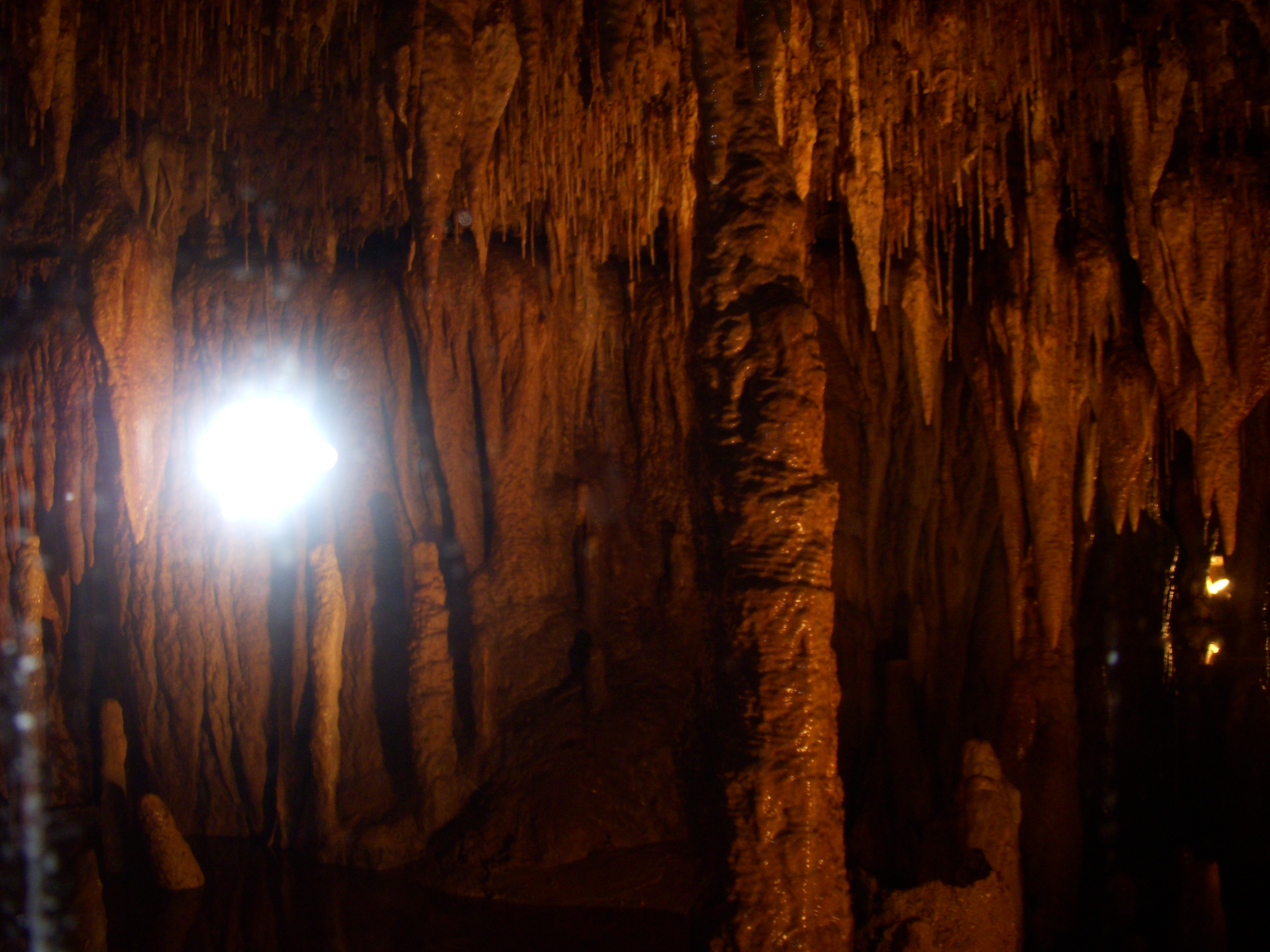 saint louis meramec cavern jesse james hideout stanton, missouri